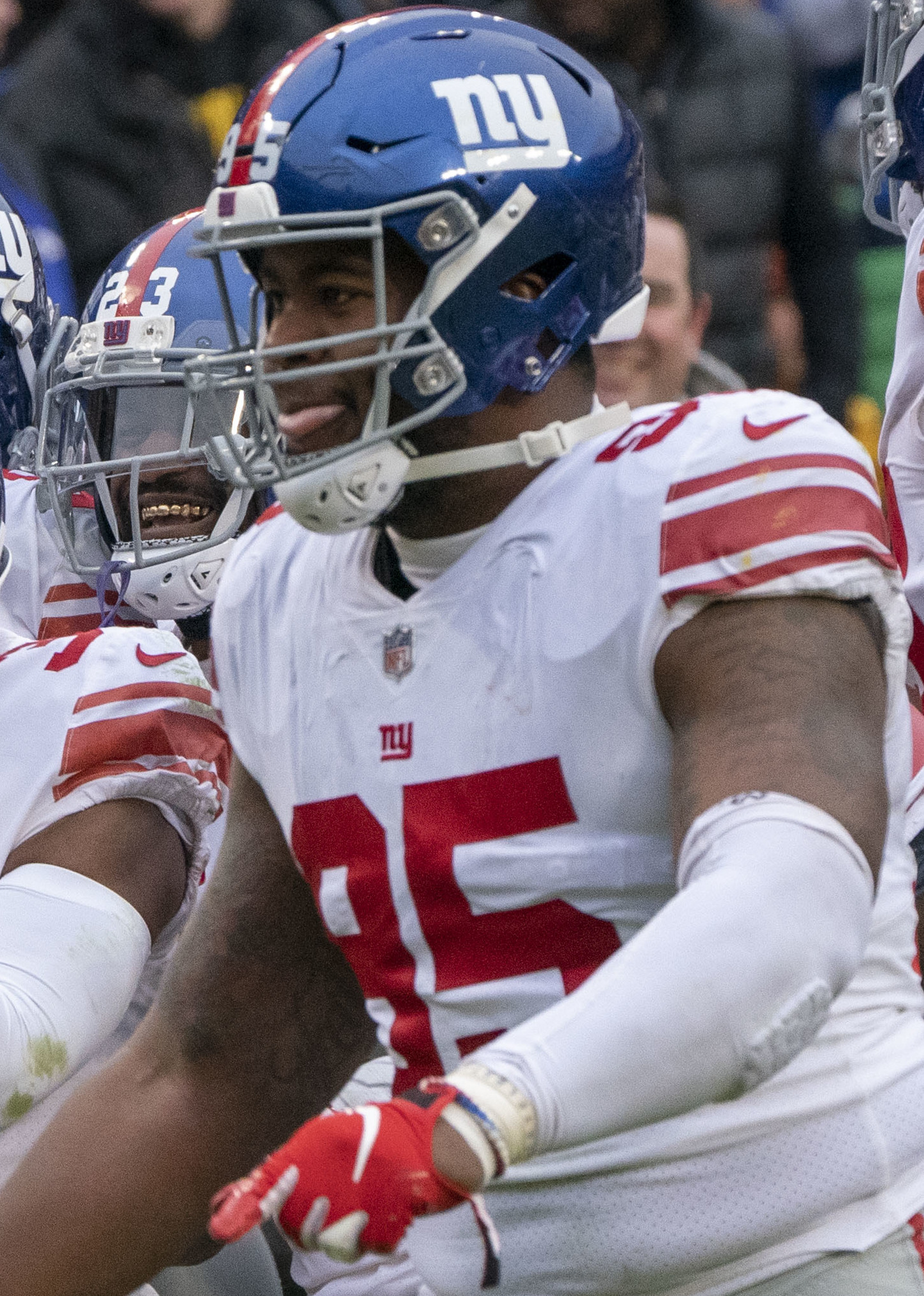 Alec Ogletree and New York Giants teammates at FedExField in December 2018.